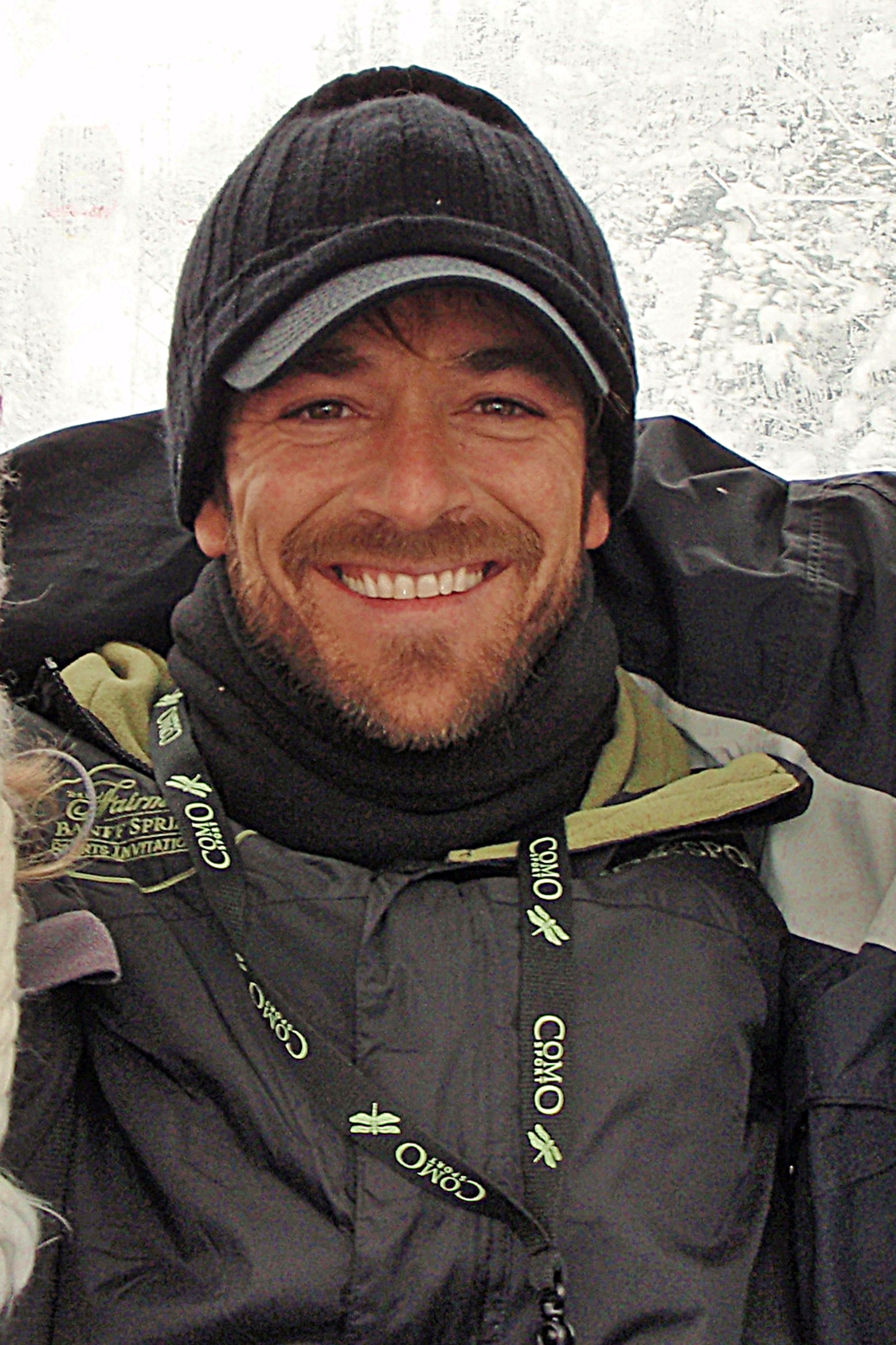 Photo taken January 2008 while riding the gondola at the Sunshine Village ski resort near Banff, Alberta, Canada. Luke was attending the 2008 Celebrity Sports Invitational, in support of Robert F. Kennedy Jr.’s Waterkeeper Alliance.